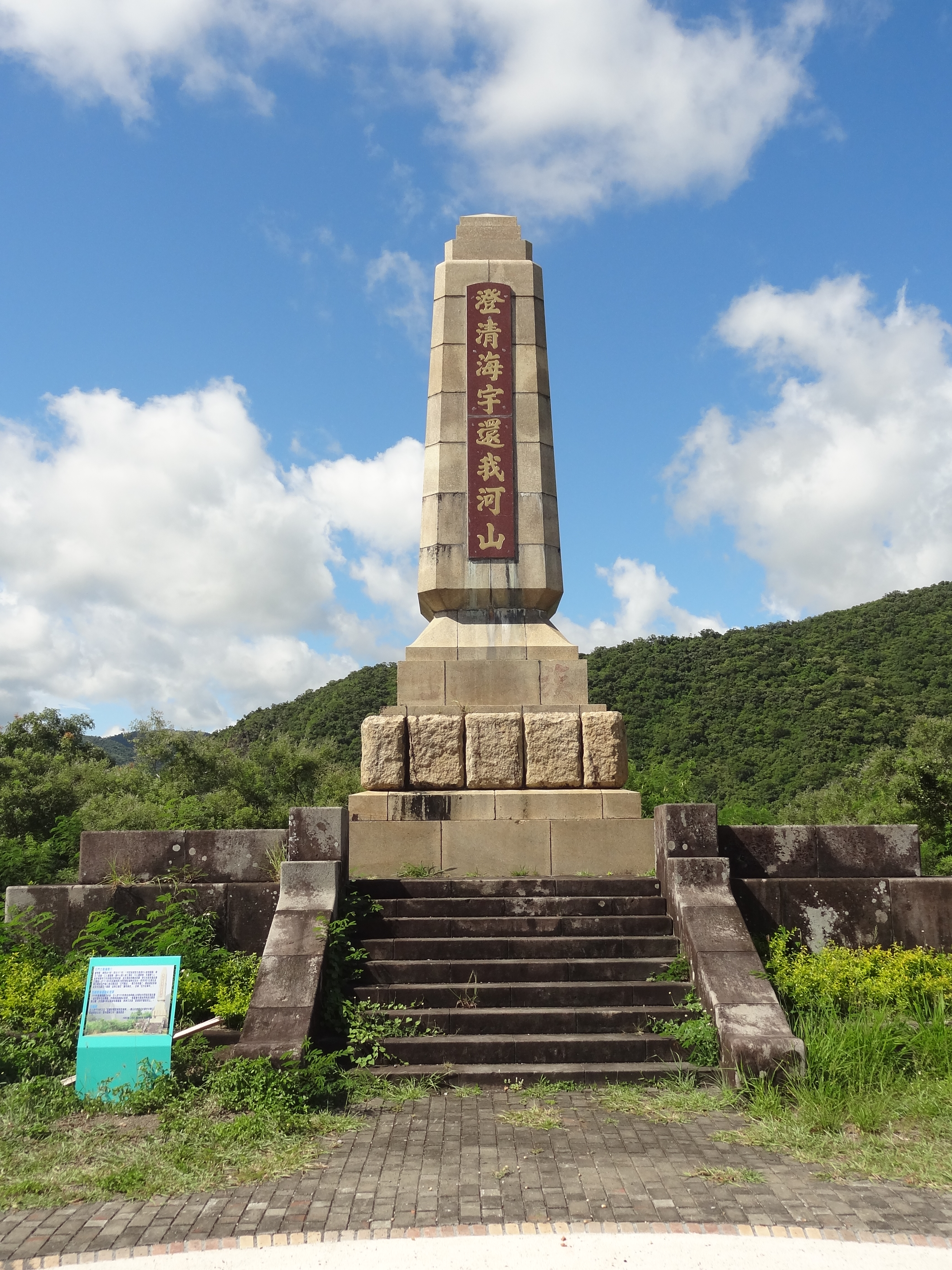 Shimen Ancient Battlefield is a natural barrier for its main terrain of rocks and shortage of trees, and the wind is extremely fierce here. When we look far jiao River's scenery from Shimen., we may image the martyrs who resisted against Japanese and respect profoundly for their brave spirit.